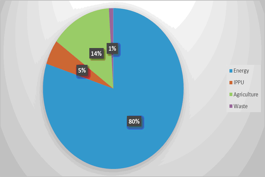 Emissions from various sectors in 2013 (%)